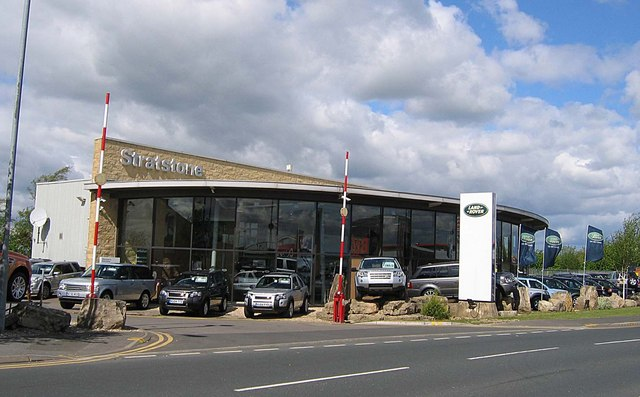 Stratstone Land Rover Dealership